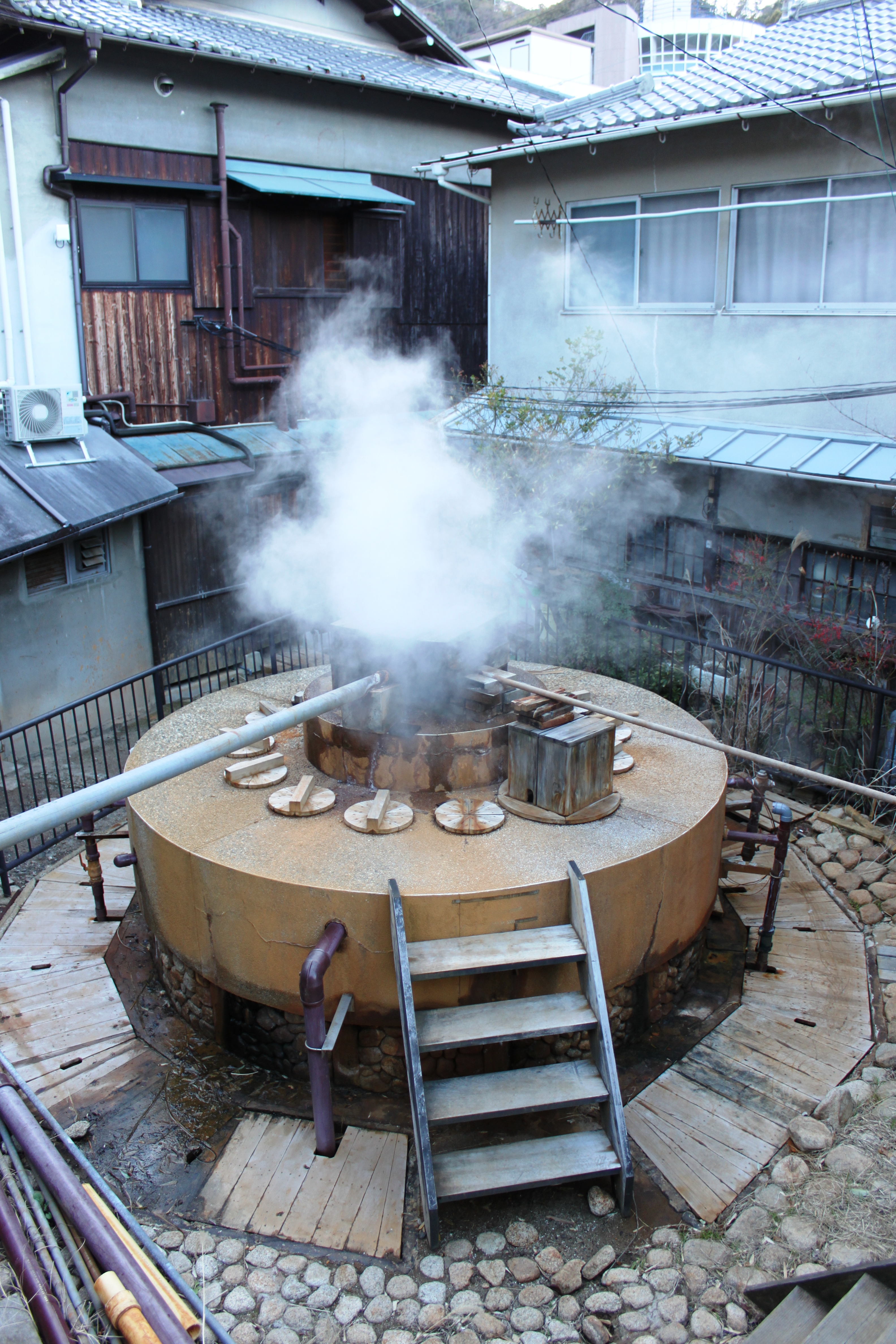 At Arima Onsen, Kita-ku, Kobe, Hyogo, Japan.